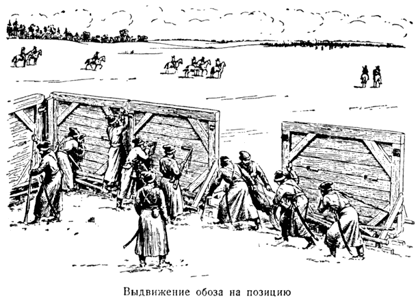 Promotion to position